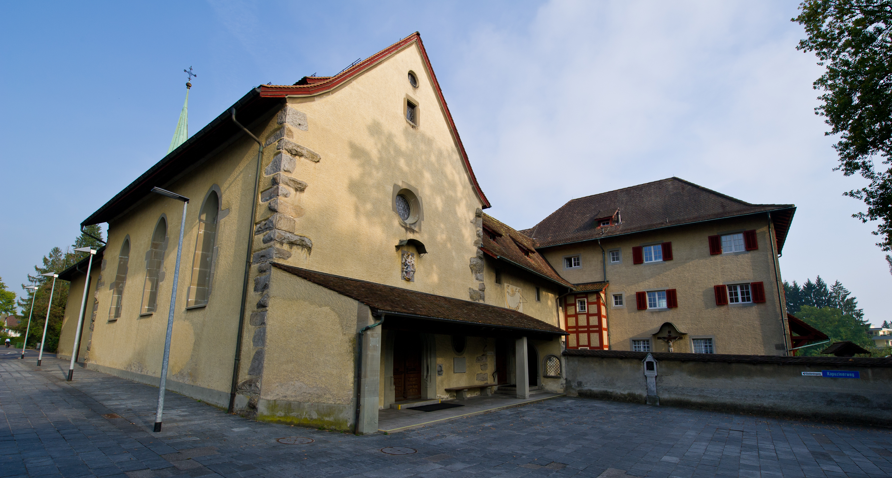 Capuchin monastery, Lucerne, LU, Switzerland.